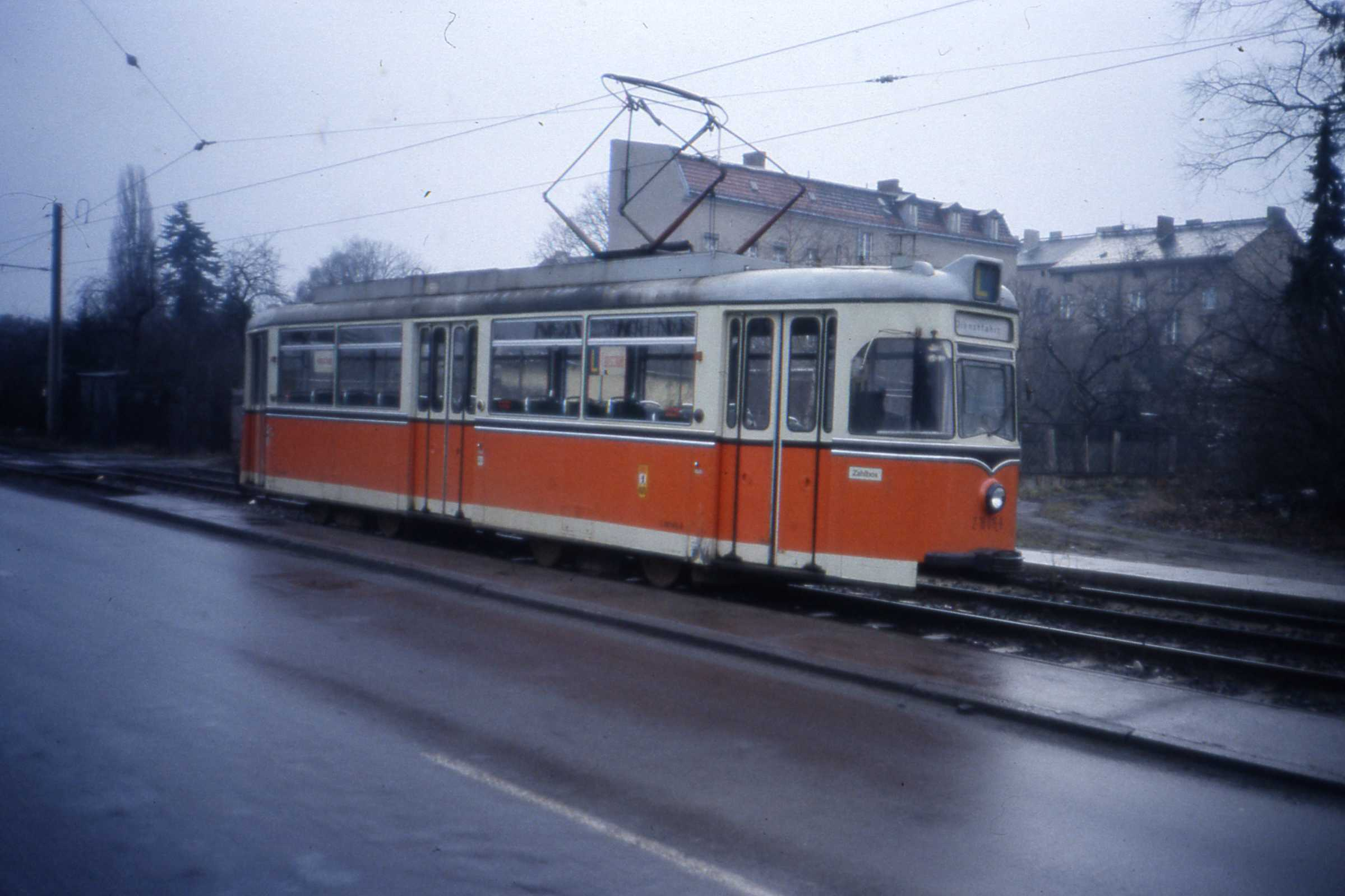 This example of the beautifully styled and liveried Gotha Grossraumwagen of Berlin seems to have been a permanent driver training vehicle. The last normal service of these trams was on 31 Mar 1995 on the renumbered Route 68 Koepenick-Schmoeckwitz. 2 of these Großraumwagen are preserved. The tram has a zahlbox sticker on its side, for honesty payment. Possibly this is no 218 033-4 One of these trams is used as the ticket office at the Prora Railway and Technology Museum on Ruegen.